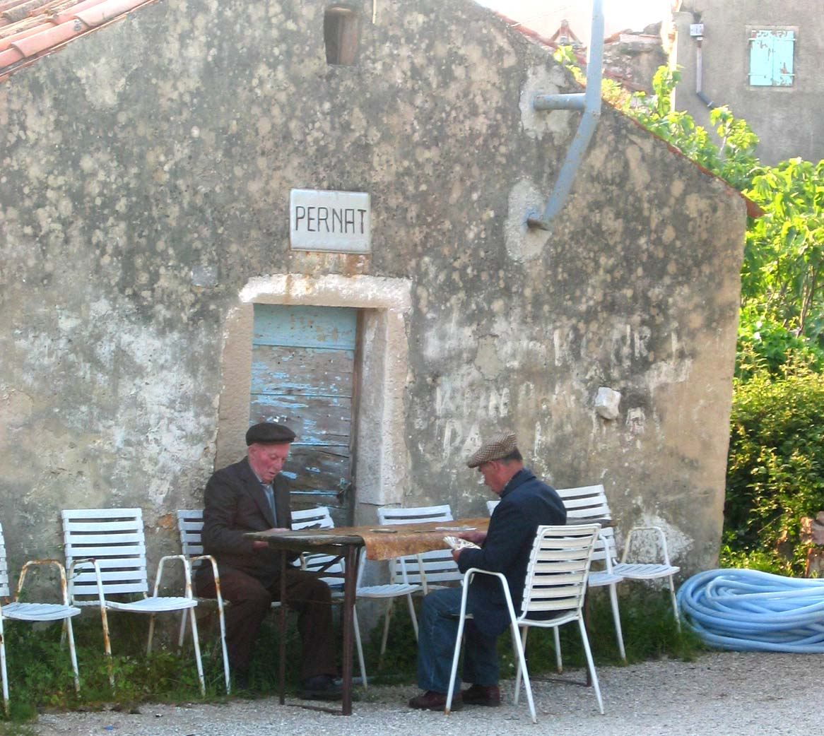 Afternoon card game at village Pernat, island Cres, Croatia